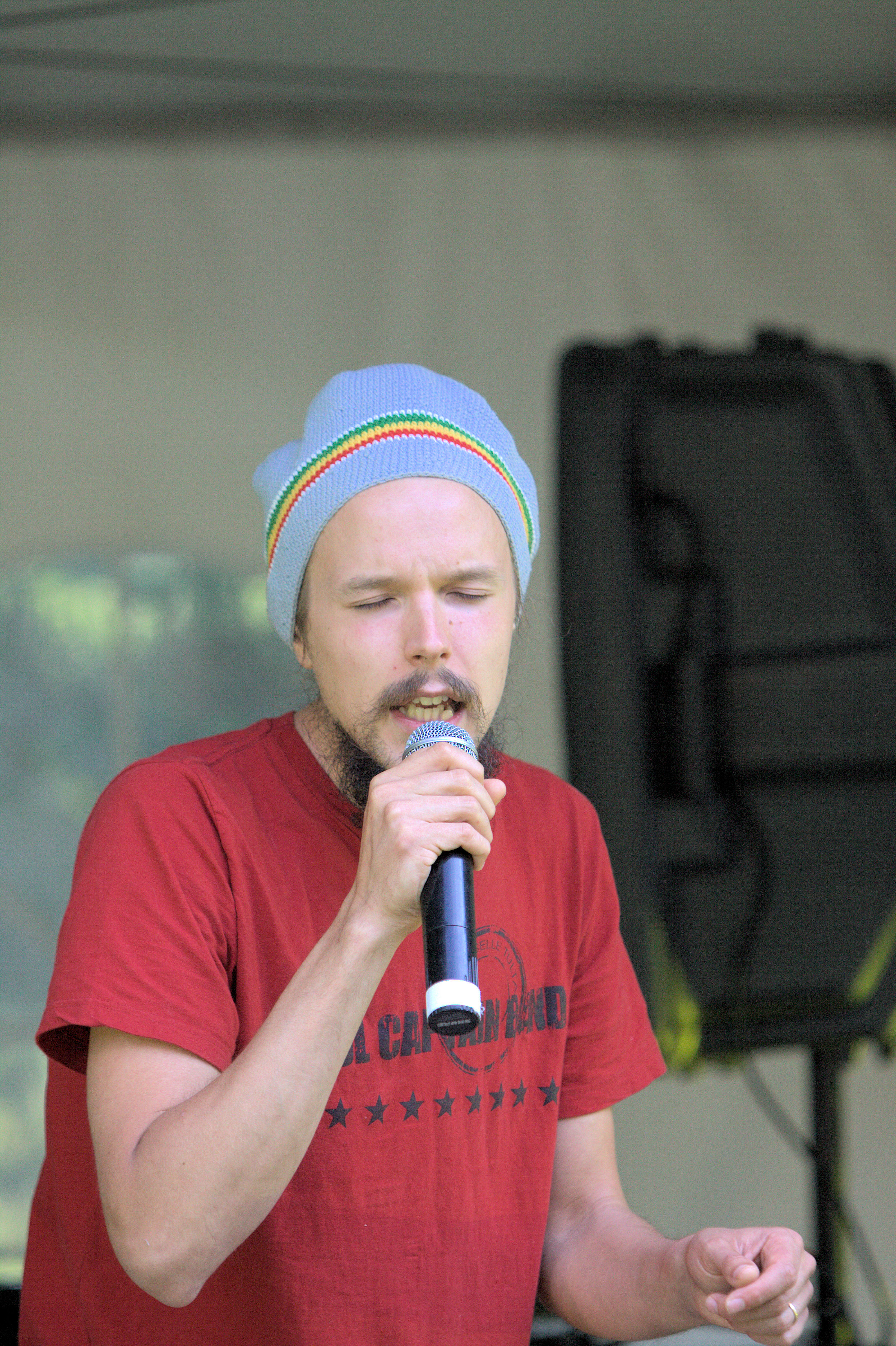 Jukka Poika, a Finnish reggae artist